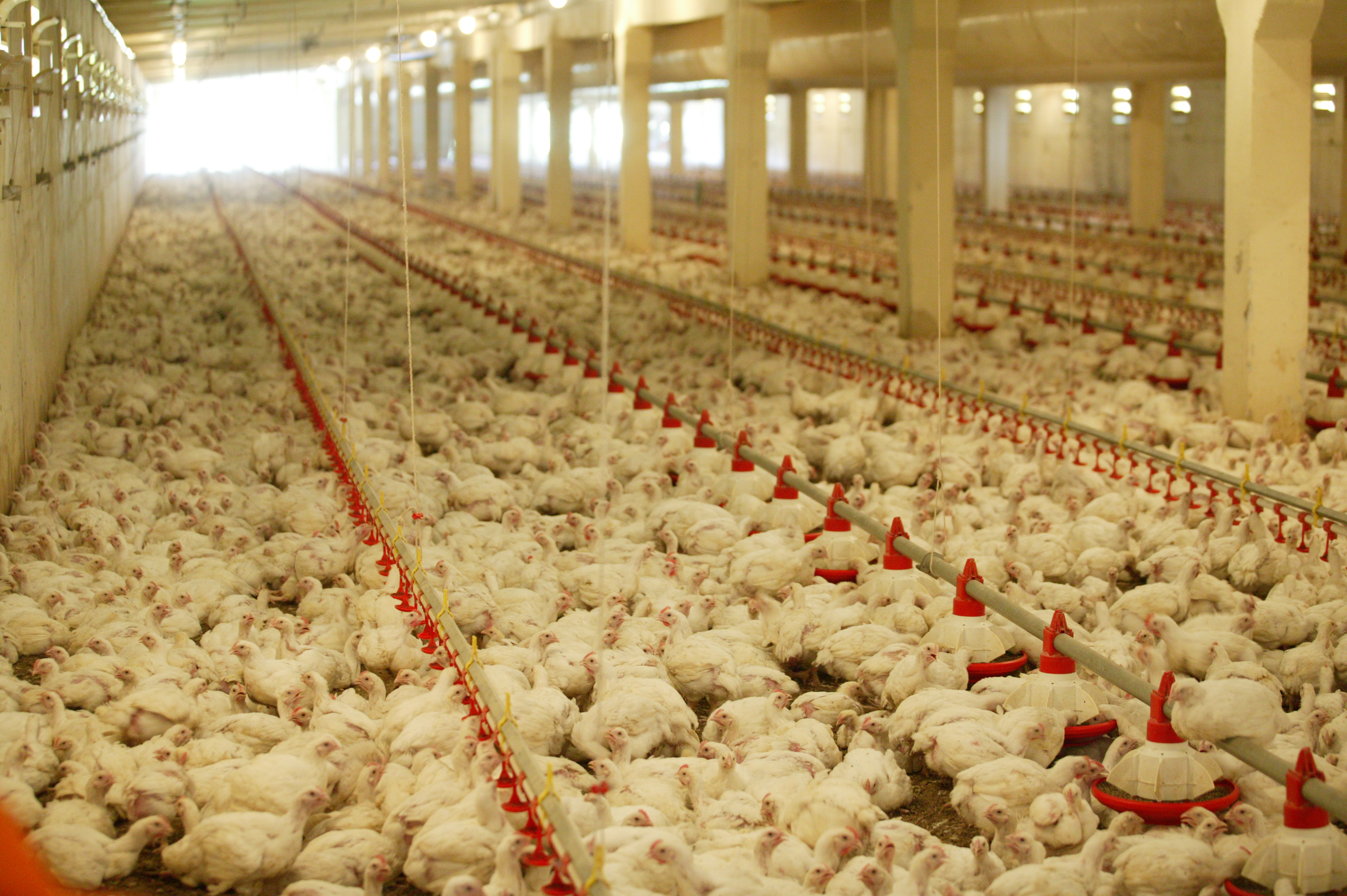 Алель